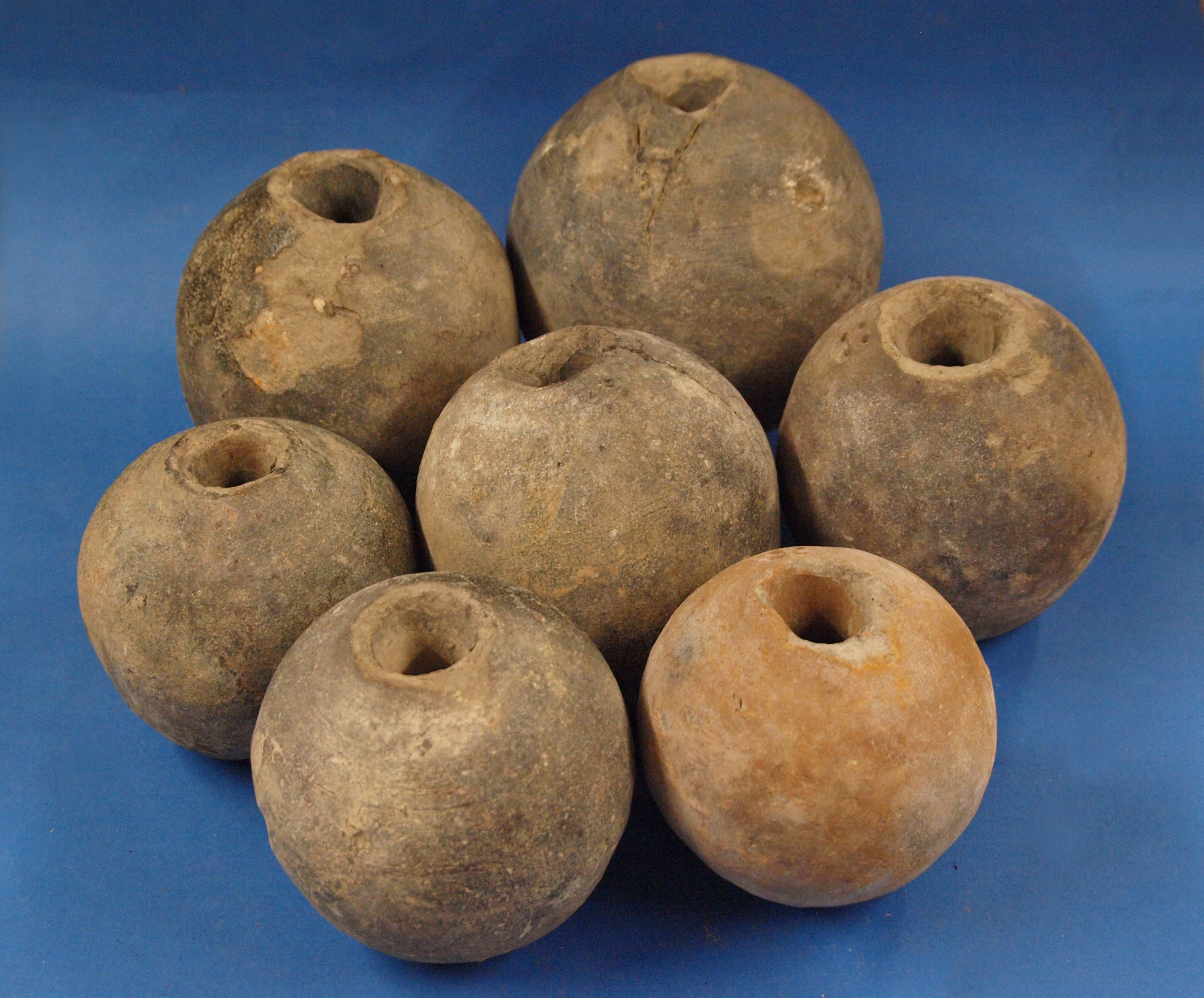 Seven ceramic hand grenades of the 17th Century found 1983 in the moat of Ingolstadt Germany. Diameters: 10–12 cm, heights 10–14 cm, wights 1,7–4,0 kg.